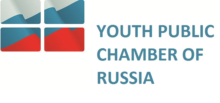 emplem of YPC